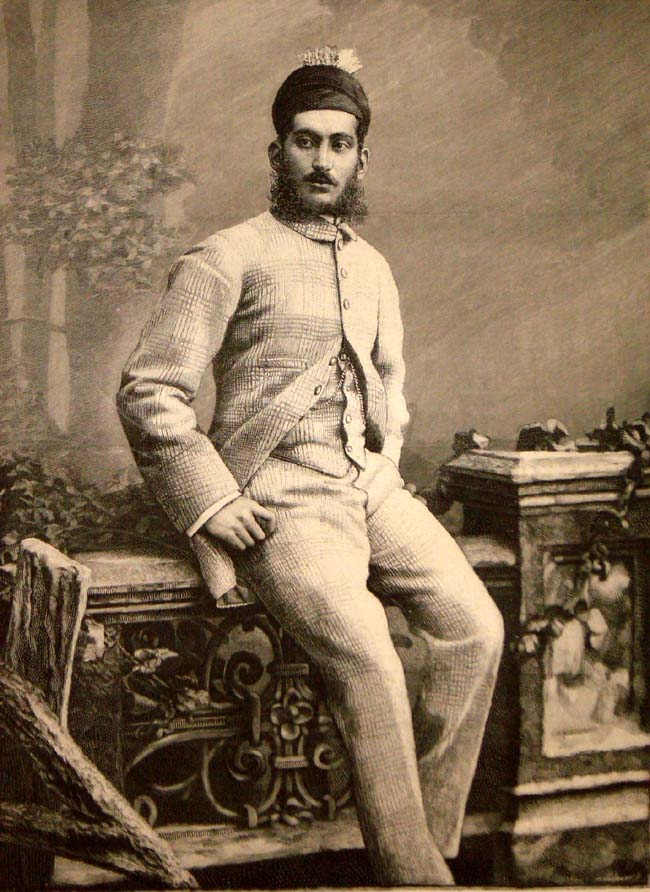 Photograph of Asaf Jah VI, ruler of Hyderabad State, who died in 1911